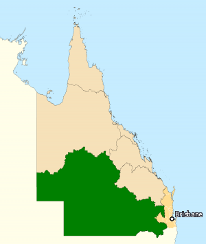 This image incorporates data that is: © Commonwealth of Australia (Australian Electoral Commission) 2009 Division of Maranoa 2010